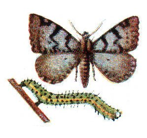 Macaria wauaria